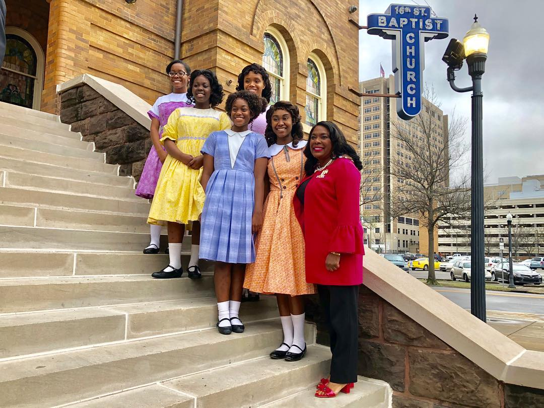 Kicking off ⁦⁦Faith and Politics⁩ this year with a performance of the 4 Little Girls play with student actors from Montgomery Public Schools!